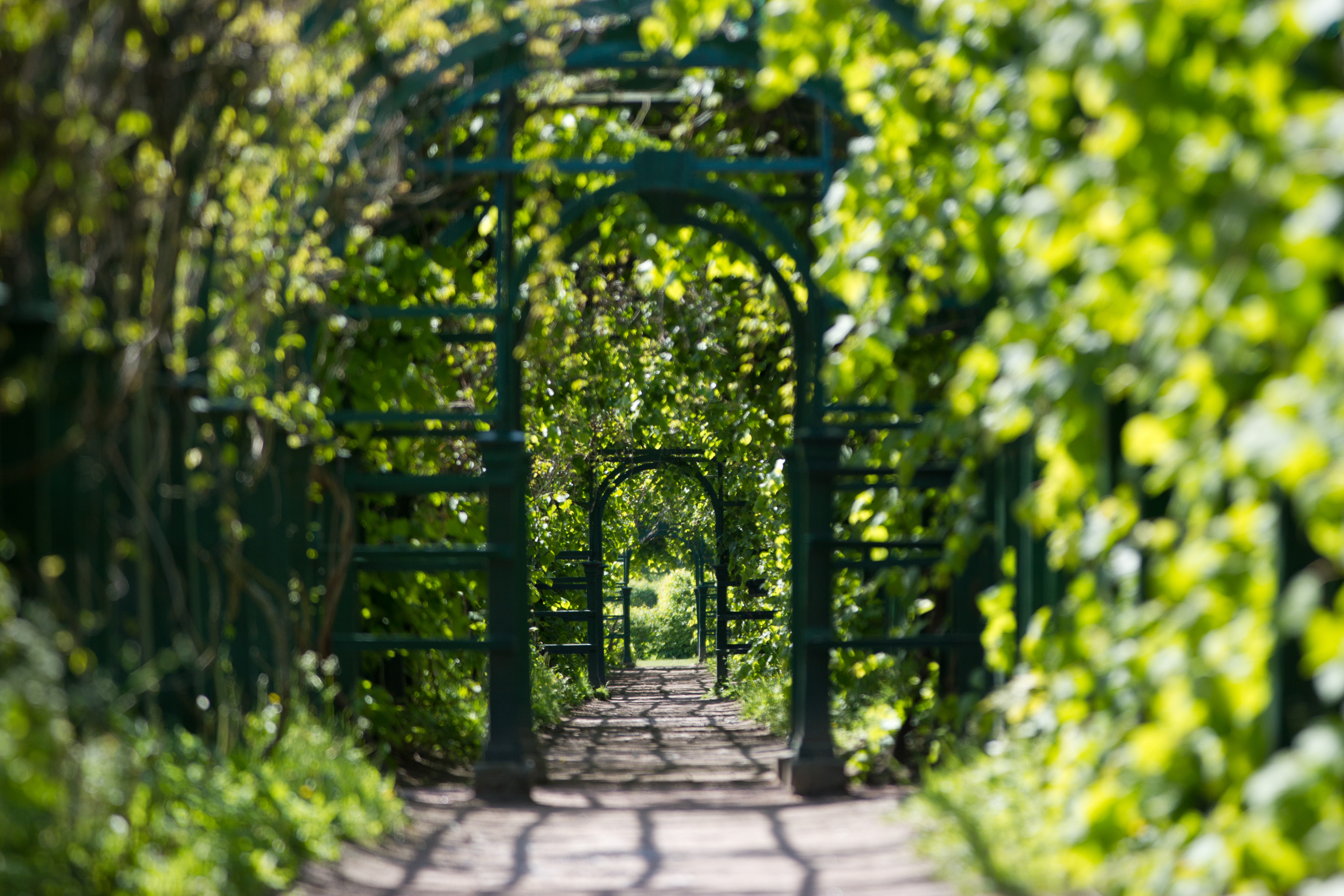 St.Petersburg Russia Summer Palace